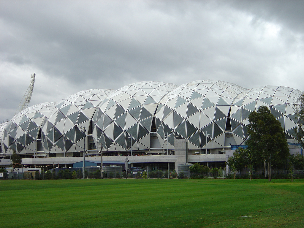 New home of Melbourne Victory FC. AAMI Park, 24 April 2010